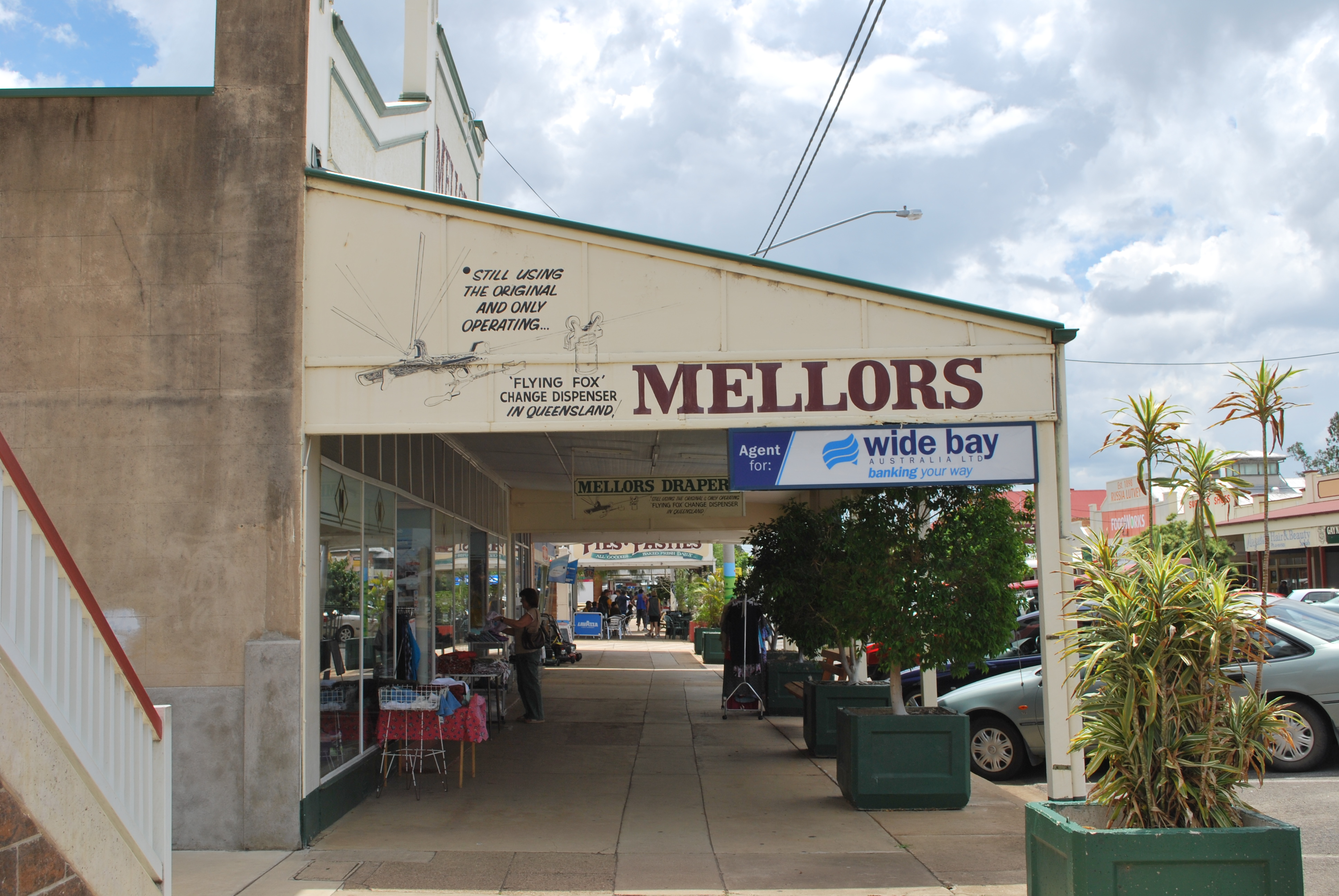 Footpath on Capper St, Gayndah, Queensland near Mellor's drapery.